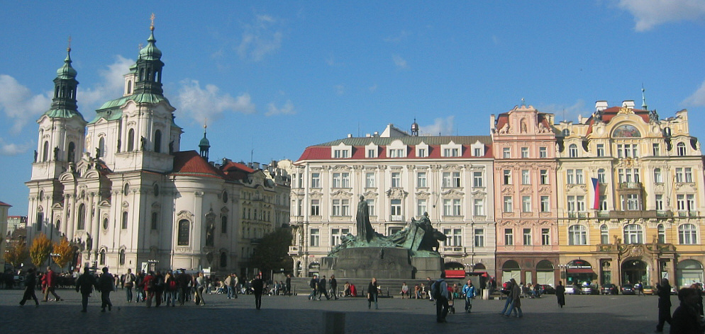 Prag, Altstädter Ring